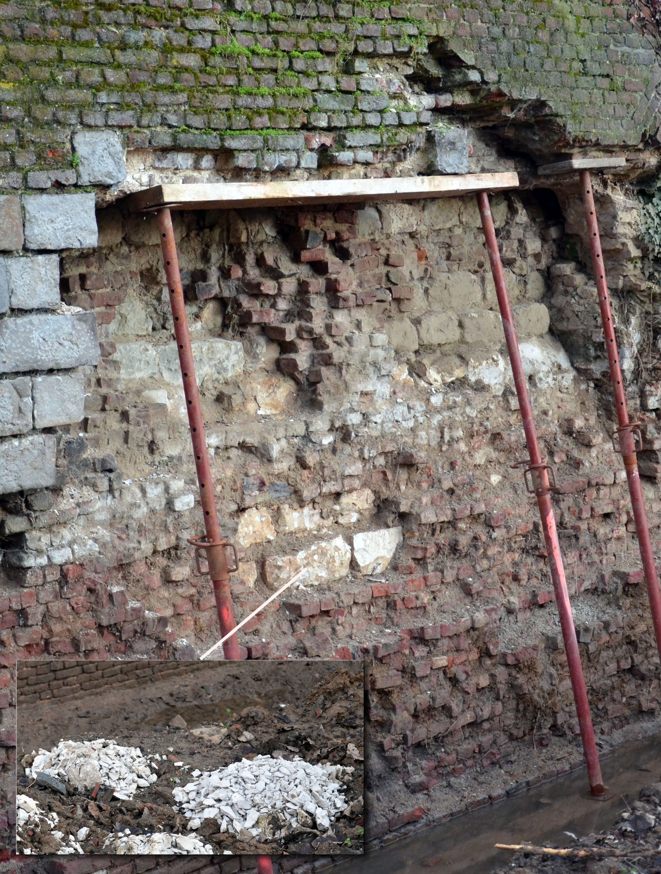 Down on the left : Cryofracture a rubble limestone. It was a rectangular stone that was extracted from the inner part of a fortification built by Vauban (Citadelle Vauban de Lille). This stone, probably taken from a "Catiche" near Lille was exposed to air for a period of freezing. The disintegration occurred in a few days. It is a very accelerated form of cryoclastic Weathering (fragmented rock by hard frost).